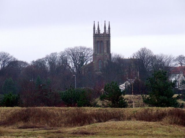 St Cuthberts New Life Christian Centre The former St Cuthberts Parish Church, now St Cuthberts New Life Christian Centre. Viewed from the A79 bridge over the Pow Burn, near Prestwick Airport.